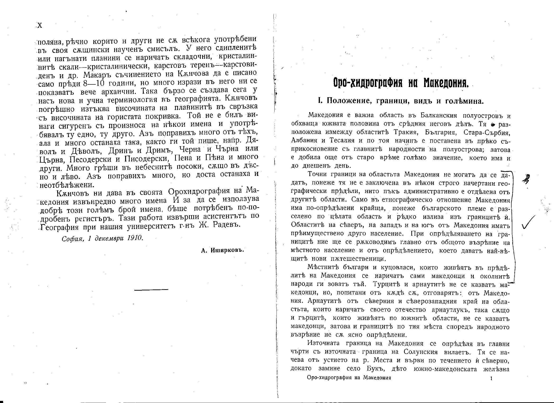 Orohydrography of Macedonia Page 6